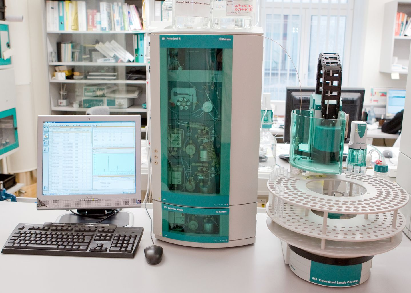 Basic IC